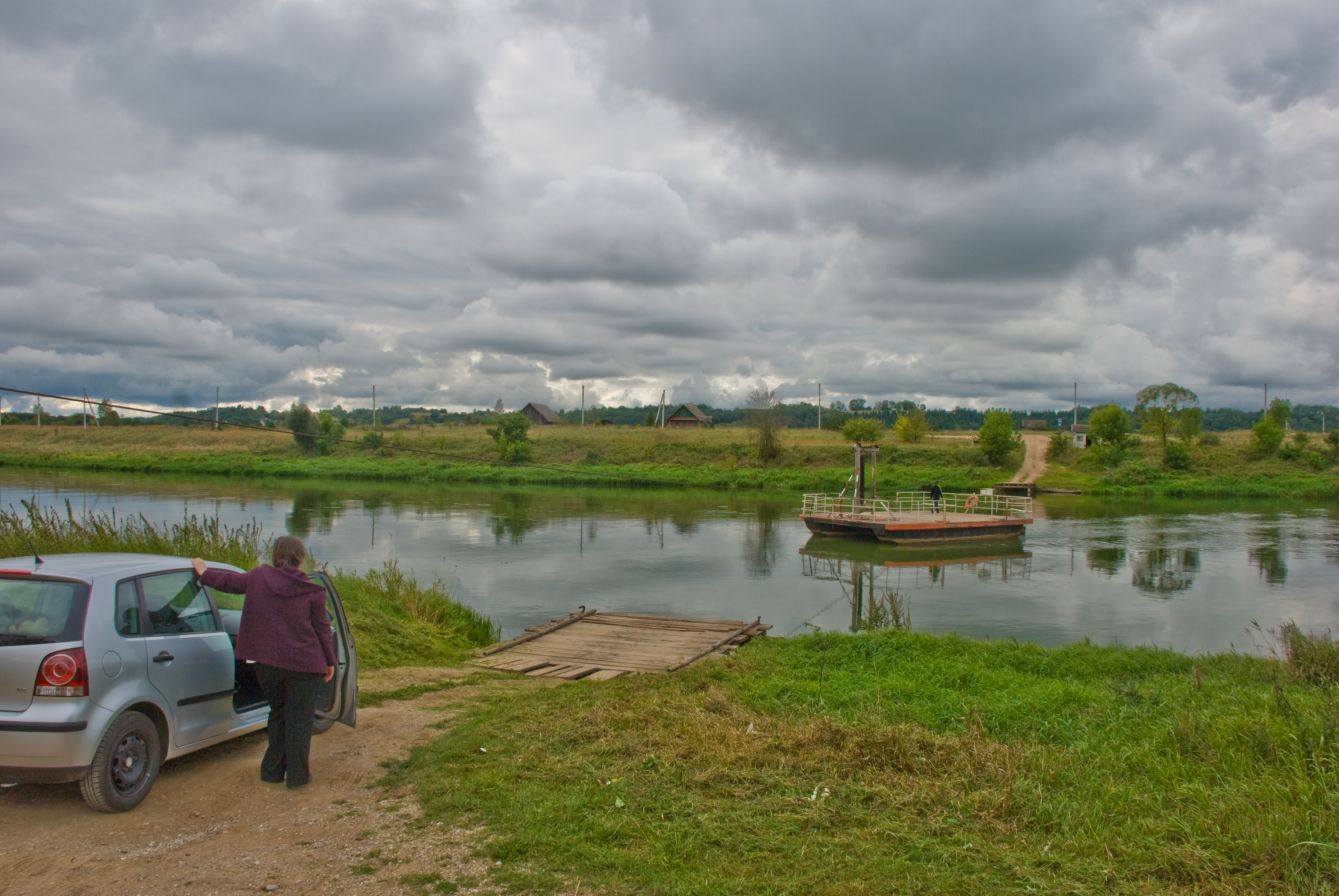 Ferry coming, River Neris at Ciobiskis, Lithuania, 11 Sept. 2008